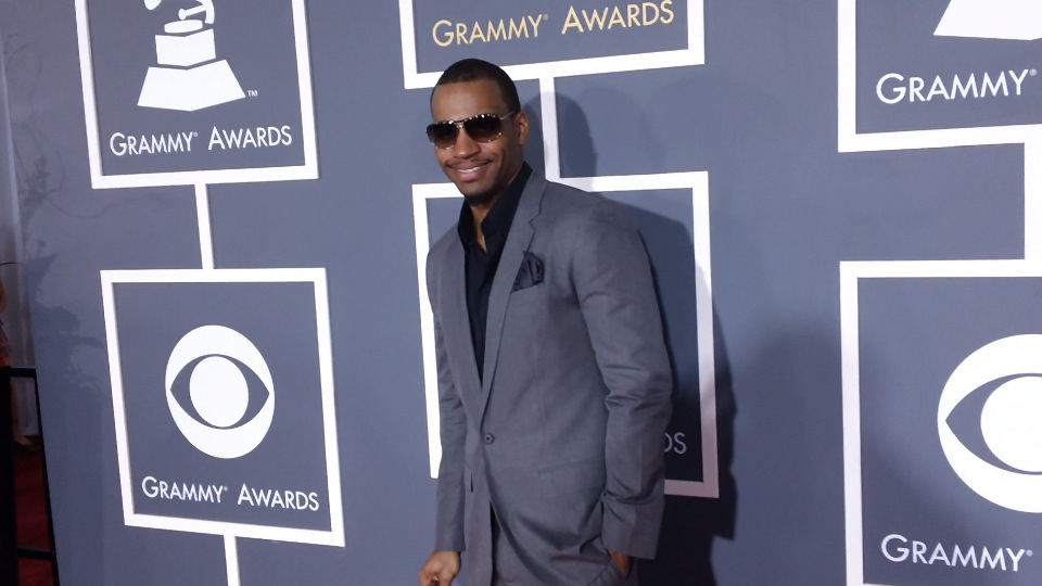 Picture taken with my camera on the red carpet. I am not a celebrity and it was not taken by media. I own this photo.